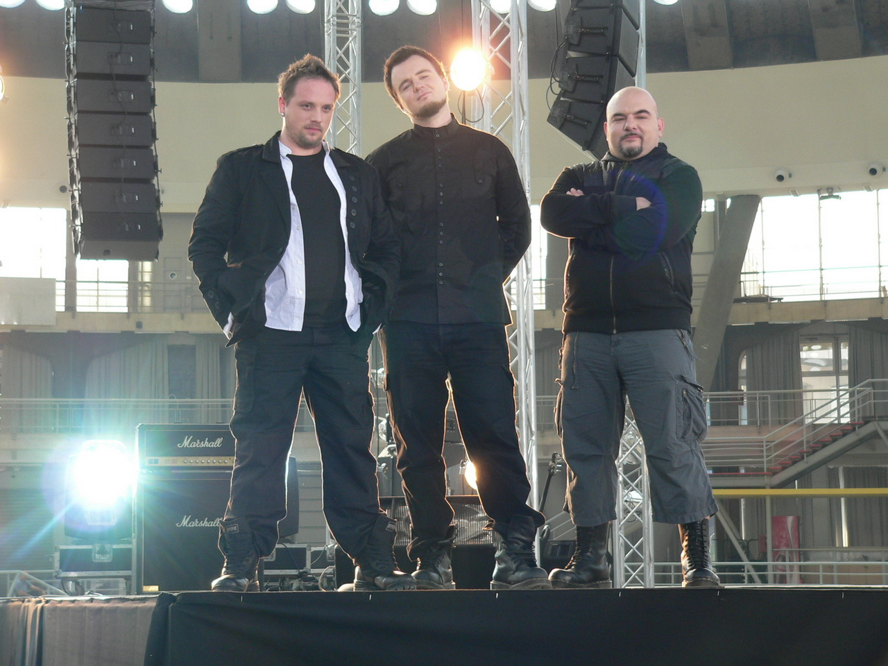 U hali 1 Beogradskog sajma